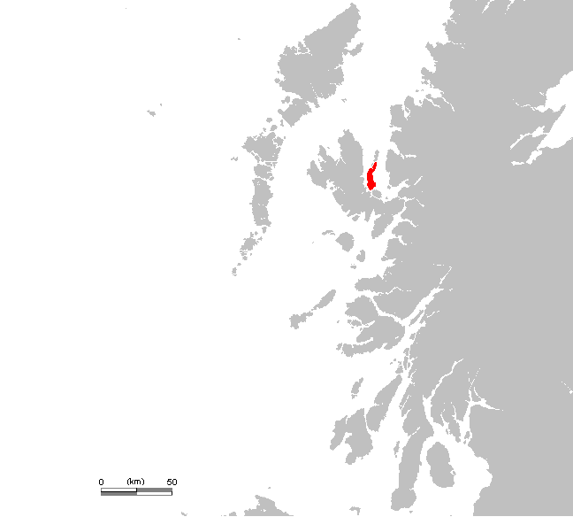 Raasay within the Inner Hebrides